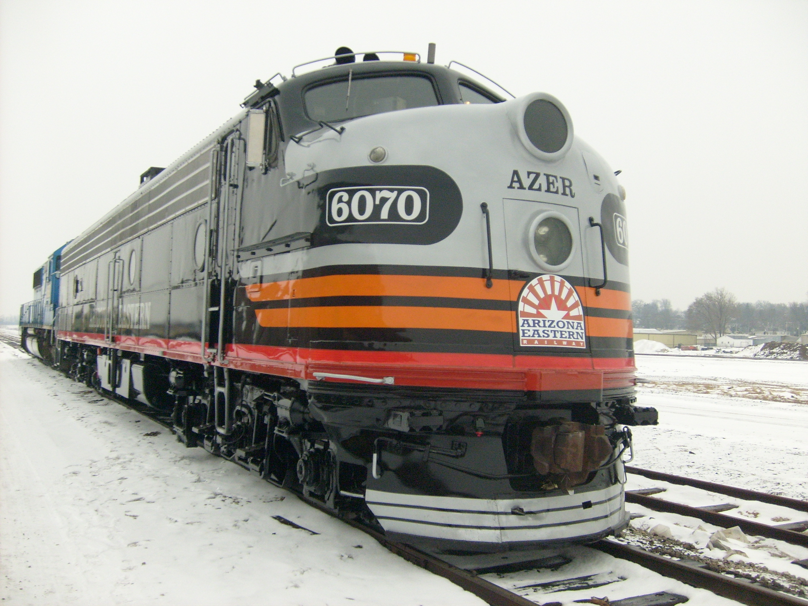 AZER 6070 E-8 Locomotive fresh out of the shop at Silvis, IL. This locomotive is former Metra 515 and former Chicago and North Western 5029B. It operates on the Copper Spike excursion train, Globe, AZ on the Arizona Eastern Railway.